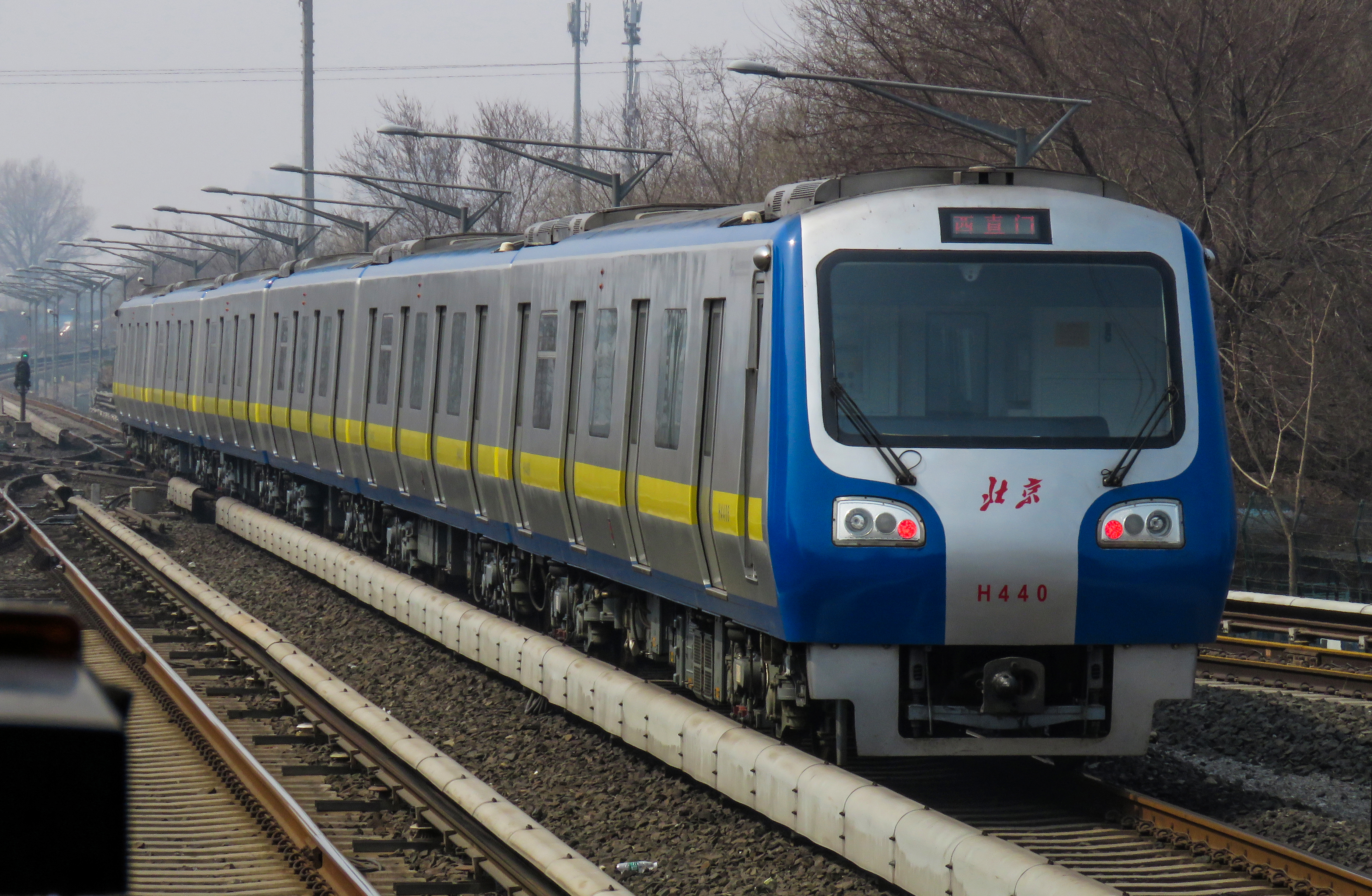 Built and renovated by BSR.